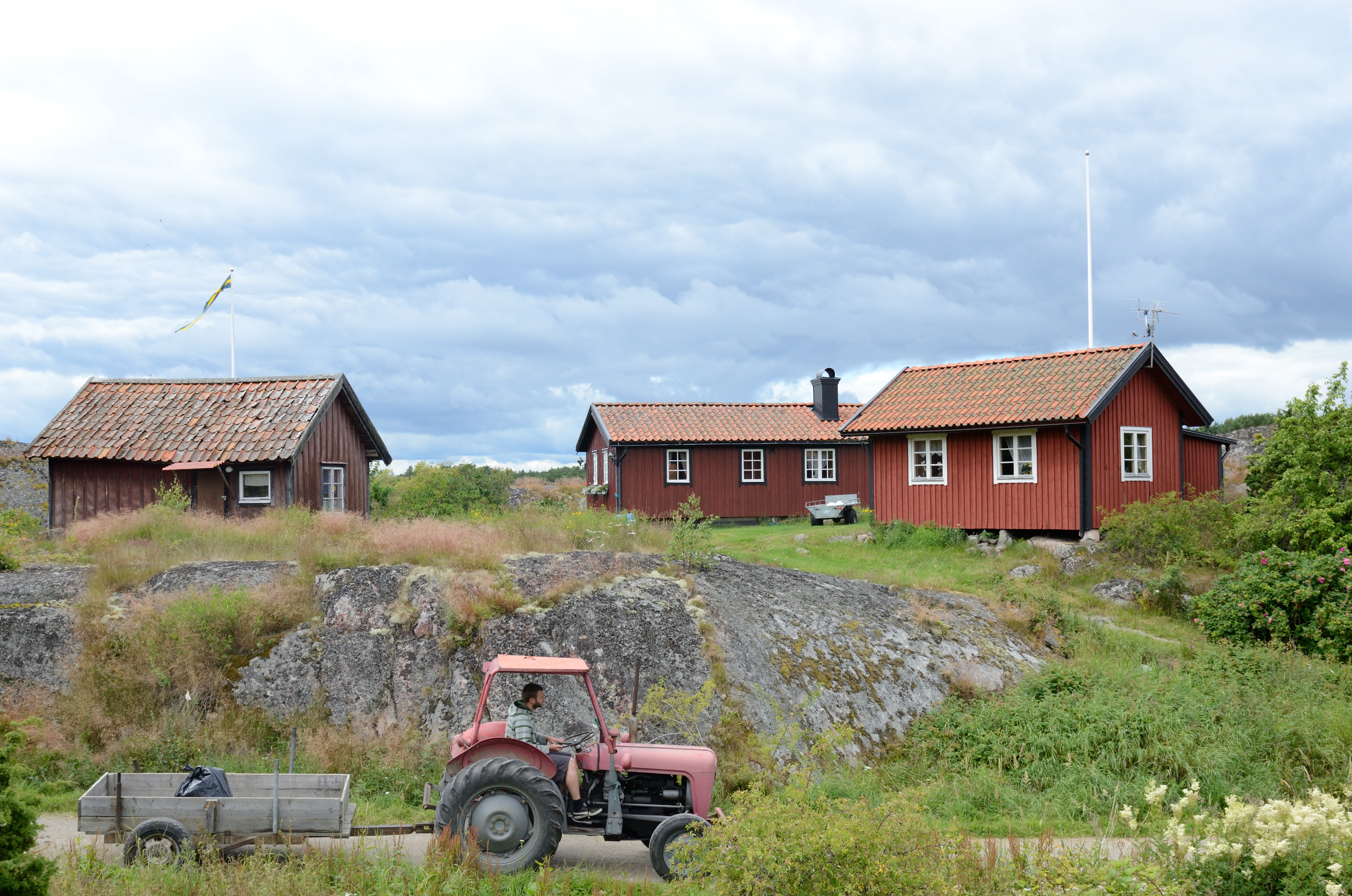 Harstena, island, Östergötland county, Sweden